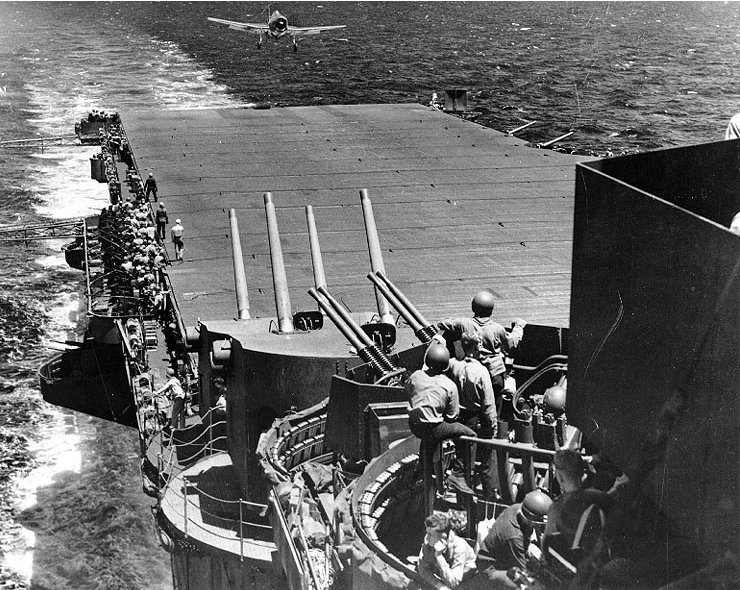 An F6F-3 "Hellcat" fighter lands aboard USS Lexington (CV-16) during the "Marianas Turkey Shoot" phase of the battle, 19 June 1944. Note manned 40mm guns in the foreground, and 20mm guns along the starboard side of the flight deck.